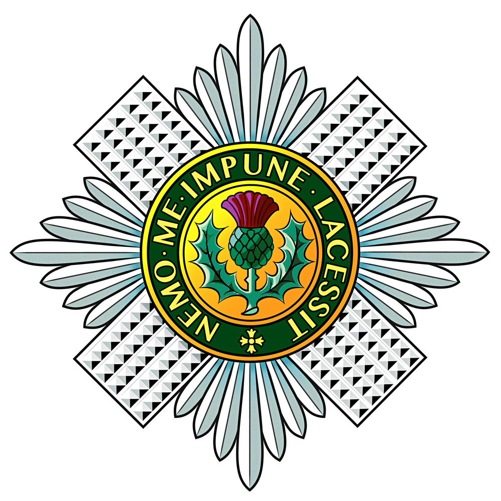 The regimental badge of the Scots Guards (SG) of the Guards Division, it is one of the Foot Guards regiments of the British Army.